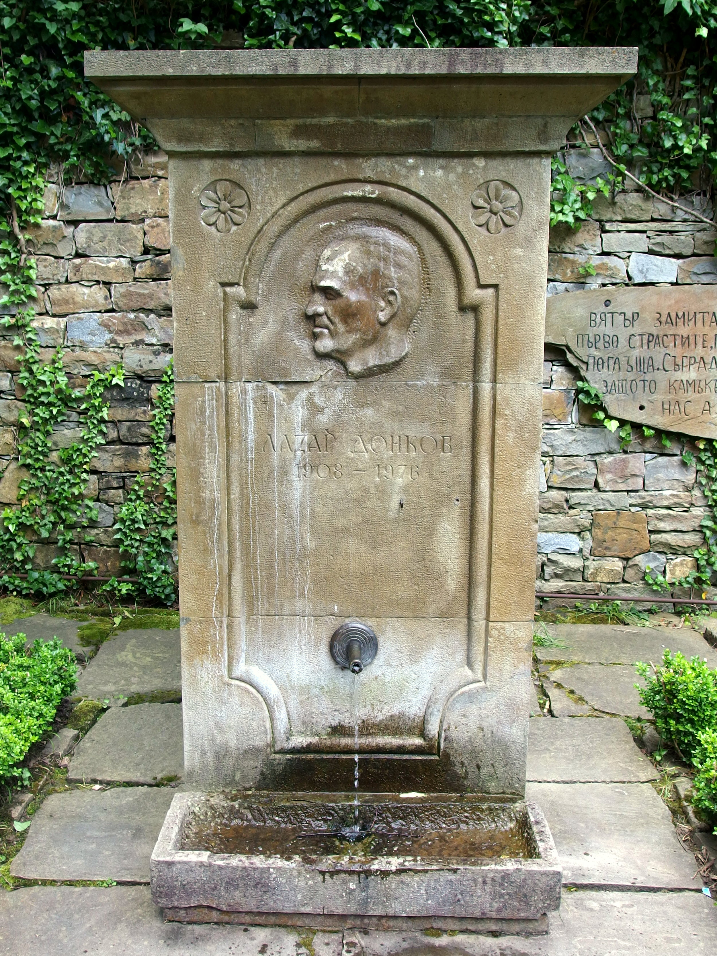 20140622 in Etar.